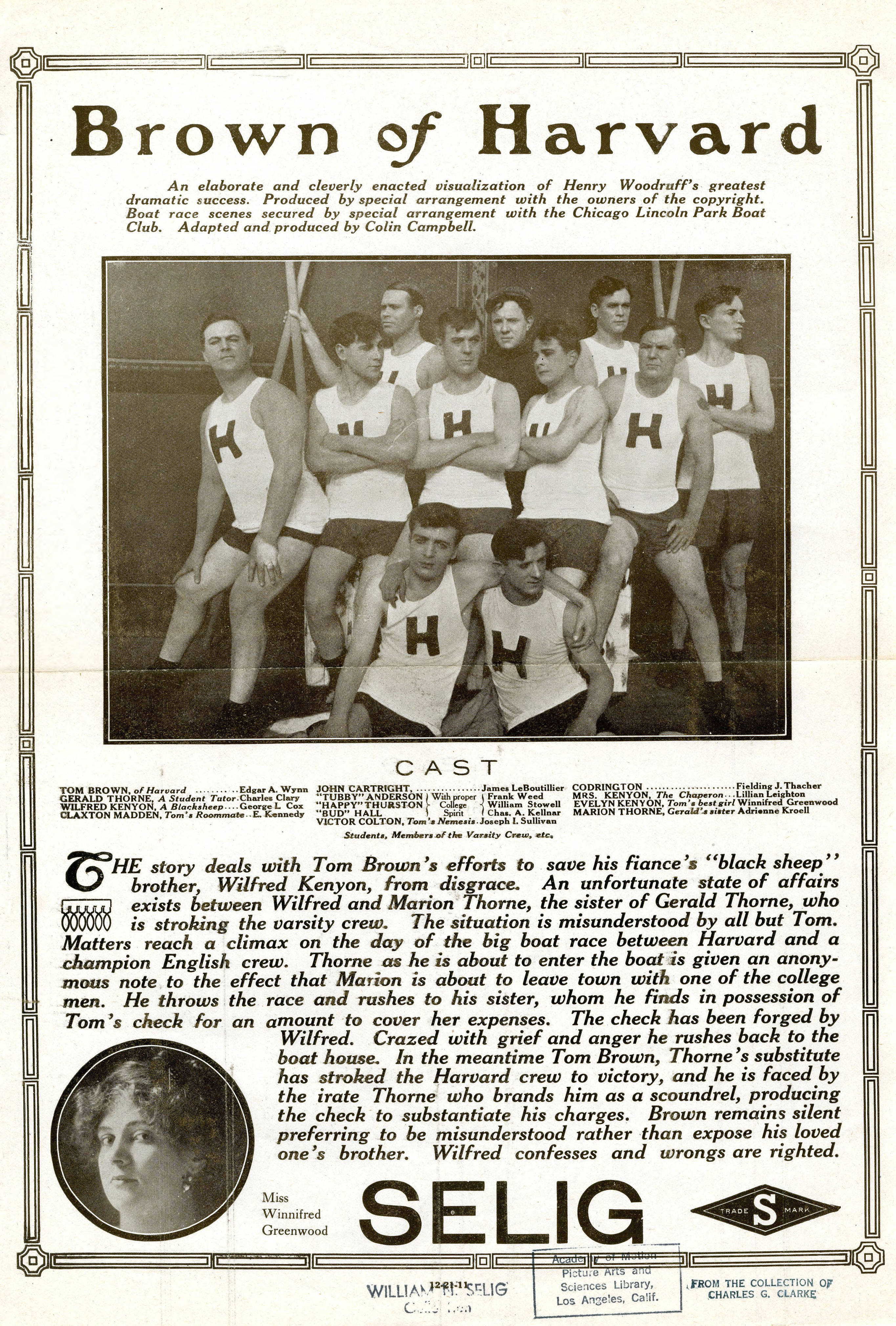 Brown of Harvard is a 1911 silent film based on the play of the same name by Rida Johnson Young. This is a flier advertising the film.